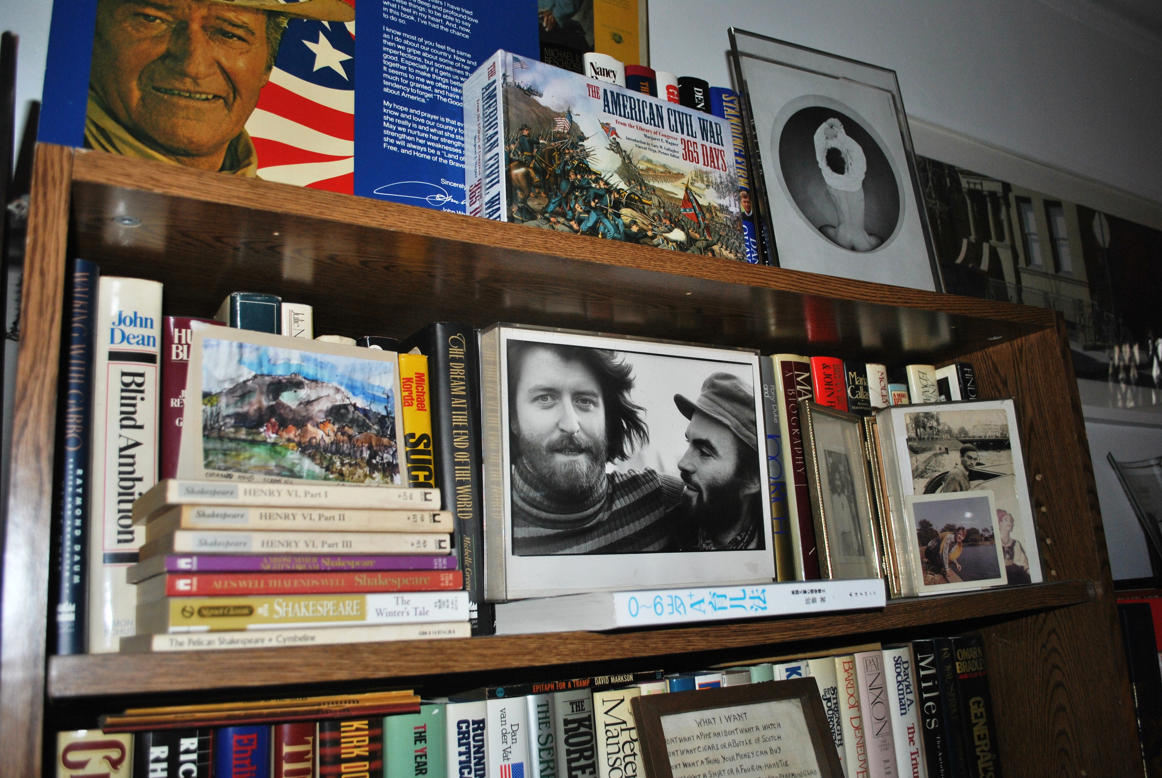 “The central photo was taken by Laura Rubin a long time ago, and the ones on the far right were taken even longer ago: Jimmy McCourt in Central Park the summer before we met at Yale in '64 + me getting on a boat in Amsterdam in '65. I just found that poster on top left (under my bed) of John Wayne's book AMERICA WHY I LOVE HER, which is the first book I did as a picture editor for Michael Korda at S&S; converting Wayne's album of songs into a book took me to the Library of Congress for the first time. This bookcase holds all of my nearly 150 picture sections. The picture top right is a page from a magazine of an ad by Mapplethorpe; I used it in Morrisroe's bio of him. The framed poem lower right is one I wrote to my Dad when I went away to college telling him how much I loved him. The book under the central photo is in Chinese with my first acknowledgment in Chinese from the author, Gisela, my dear friend & colleague. This is a very potent image for me.” Vincent Virga